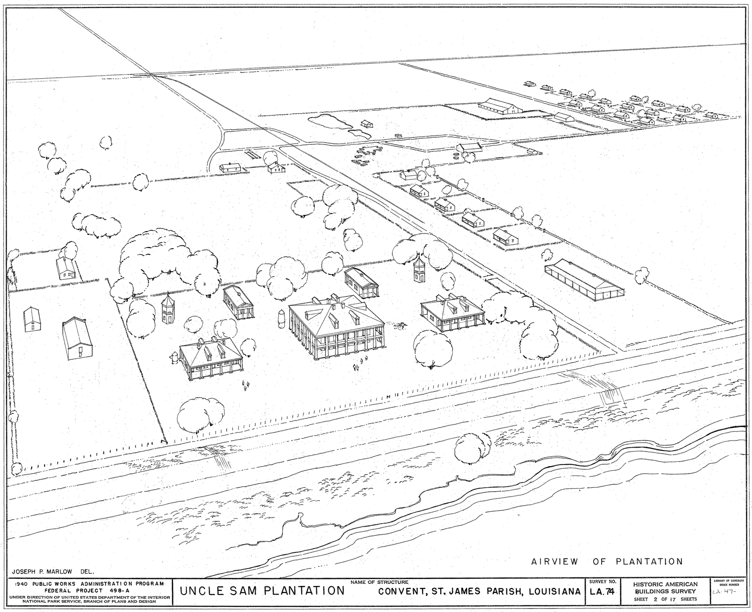 Aerial perspective drawing of Uncle Sam Plantation, prior to demolition of structures.